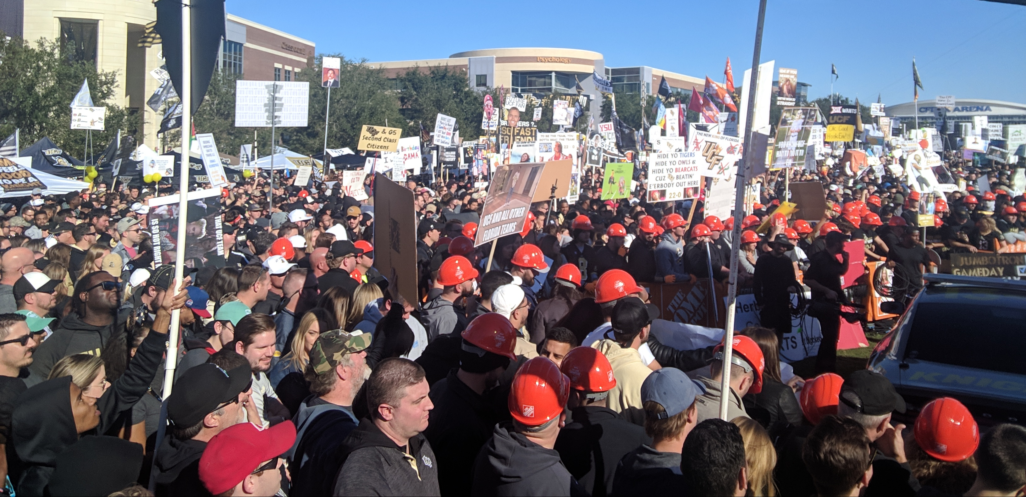 Side view of the crowd at College Gameday at UCF (cropped to cut out logo on flag)